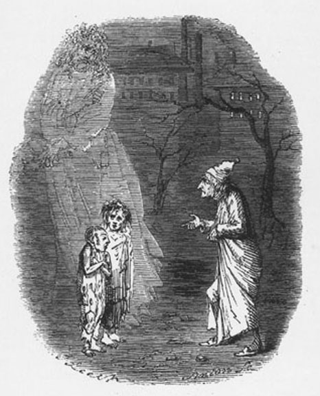 A Christmas Carol, Ignorance and Want, John Leech, 1843, Wood engraving